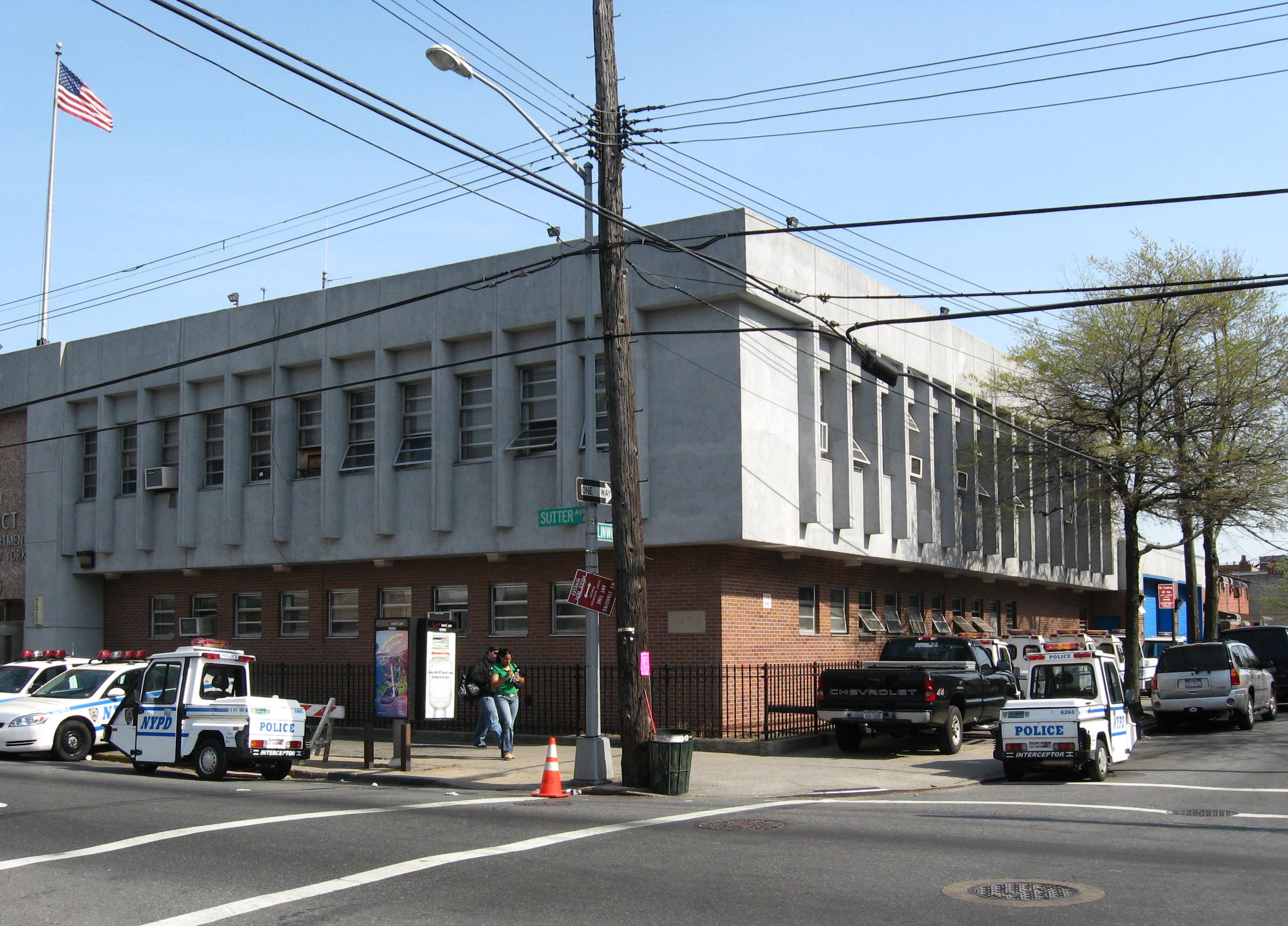 Looking southeast at 75th Precinct at 1000 Sutter Avenue in ENY on a sunny springtime afternoon.